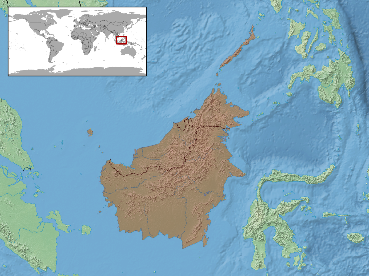 geographic distribution of Dryocalamus tristrigatus (Native: Brunei Darussalam; Indonesia (Kalimantan); Malaysia (Sabah, Sarawak); Philippines)